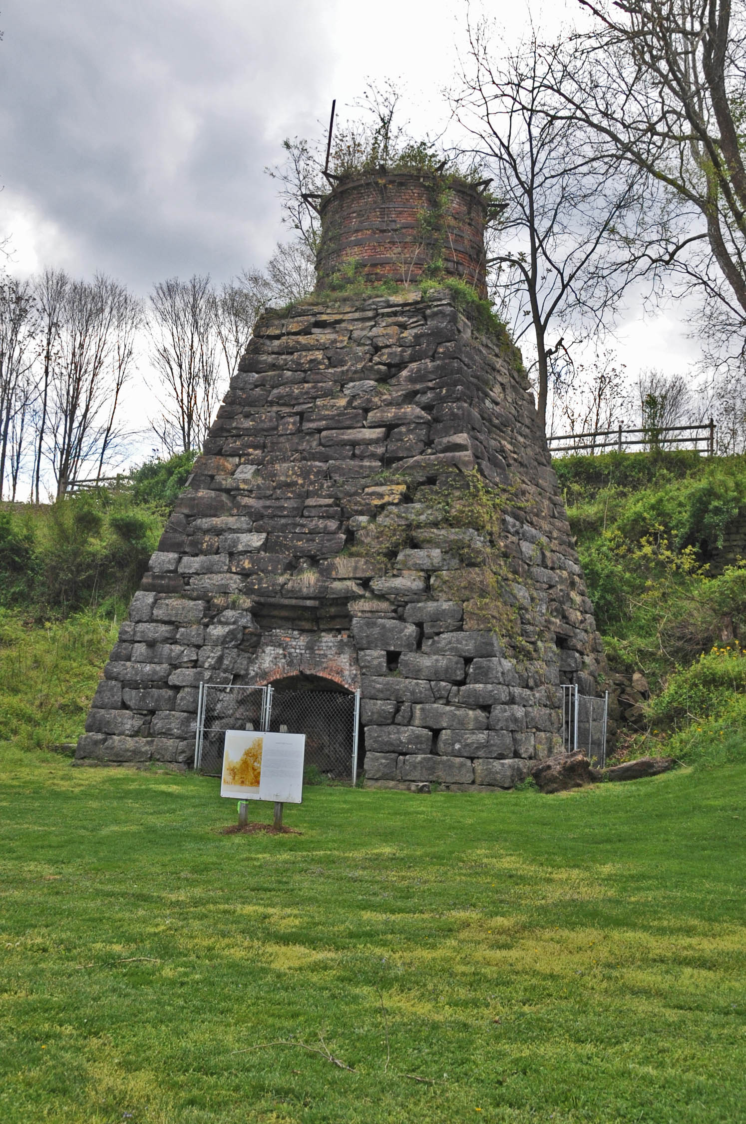 FOSTER FALLS FURNACE WHICH WAS BUILT IN 1880 AND WAS ONE OF MANY IN THE NEW RIVER VALLEY